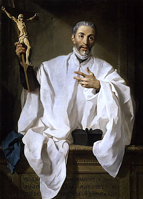 Saint John of Ávila